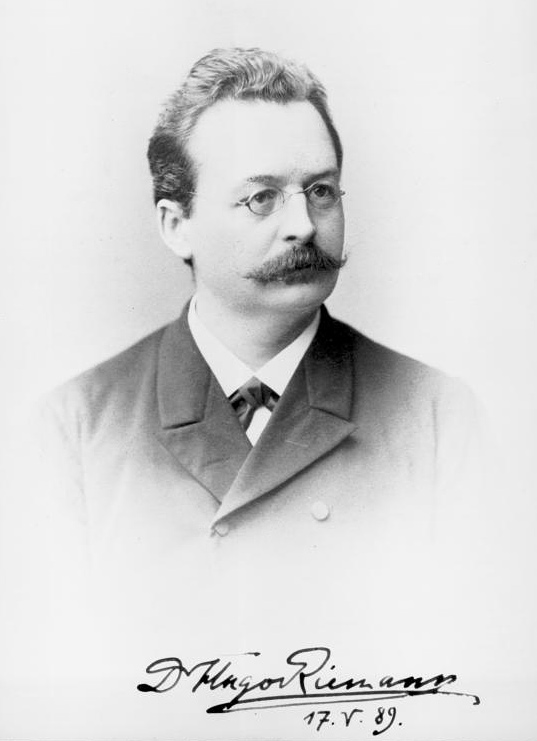 German musicologist and teacher Hugo Riemann (1849—1919)